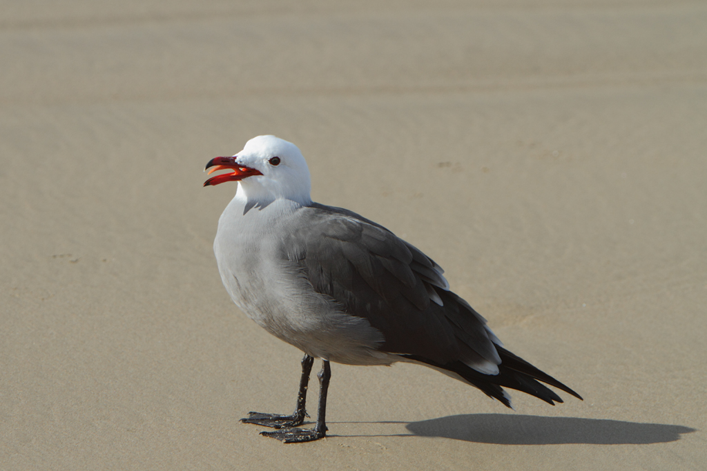 The Heermann's Gull (Larus heermanni) is a gull resident in the United States and Mexico. Of the current population of about 150,000 pairs, 90% nest on the island of Isla Rasa off Baja California in the Gulf of California, with smaller colonies as far north as California and as far south as Nayarit Reference